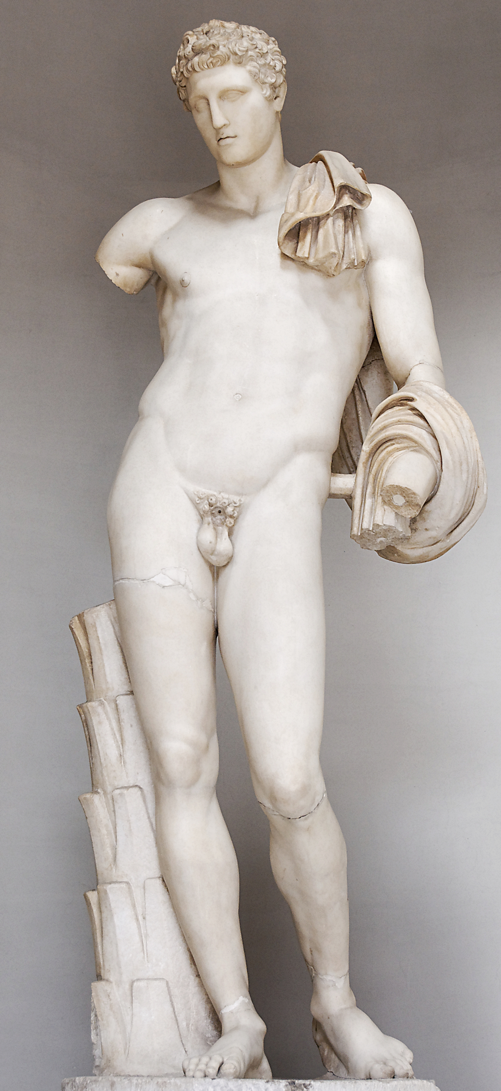 So-called “Belvedere Antinous”, actually a statue of Hermes of the Andros-Farnese type. Marble, Roman artwork, Hadrian's era, copy or a Greek bronze original of the 4th century BC. Found near the castle Sant'Angelo.